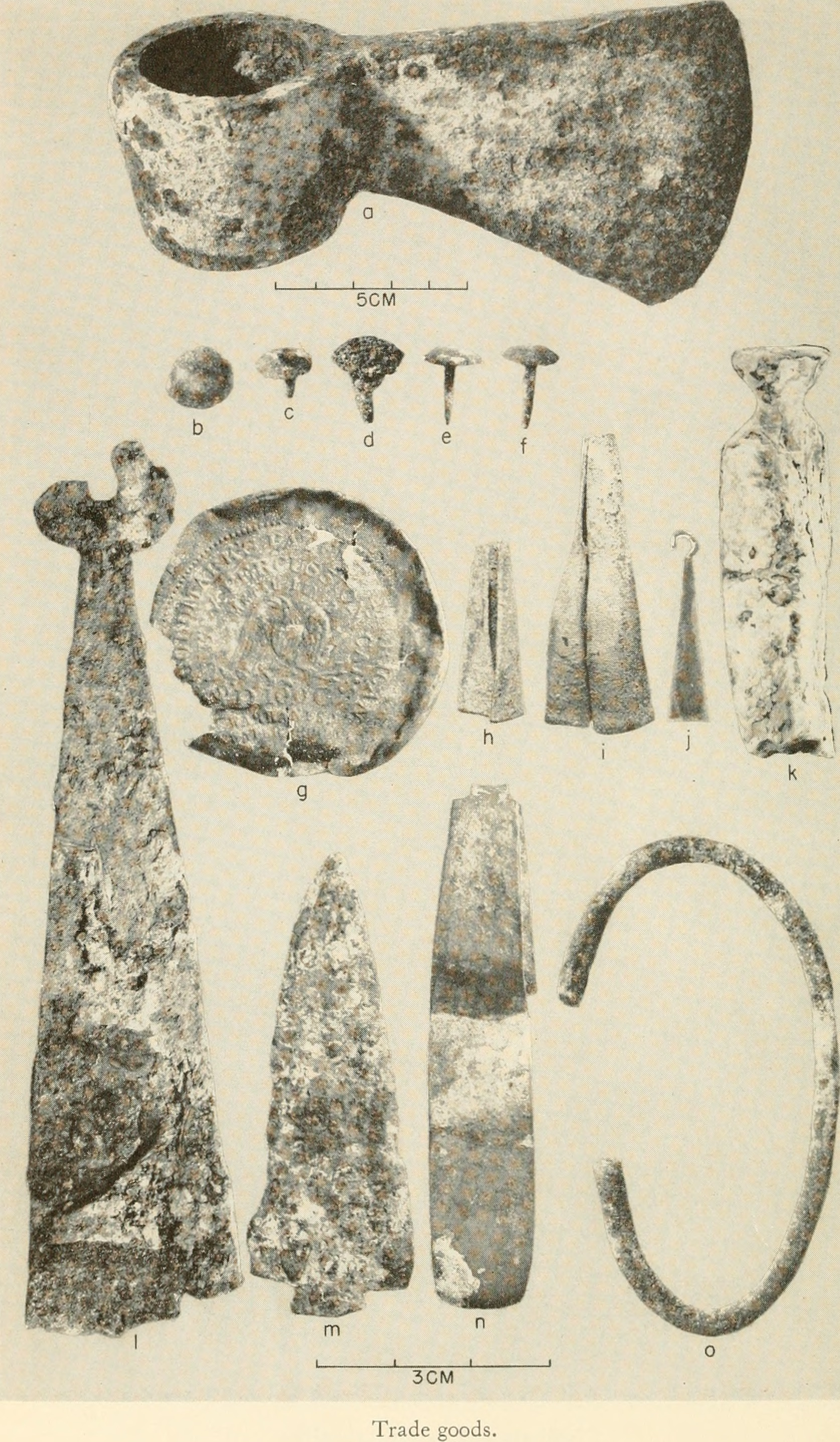 Title: Bulletin Year: 1901 (1900s) Authors: Smithsonian Institution. Bureau of American Ethnology Subjects: Ethnology Publisher: Washington : G. P. O. Text Appearing Before Image: BUREAU OF AMERICAN ETHNOLOGY BULLETIN 176 PLATE 28 Text Appearing After Image: '